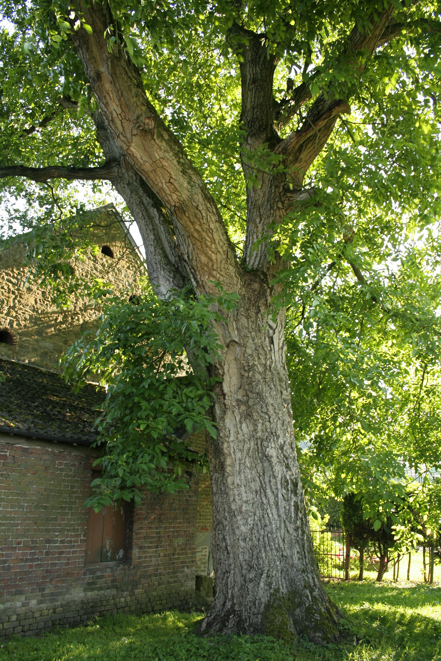 Common walnut (Juglans regia)